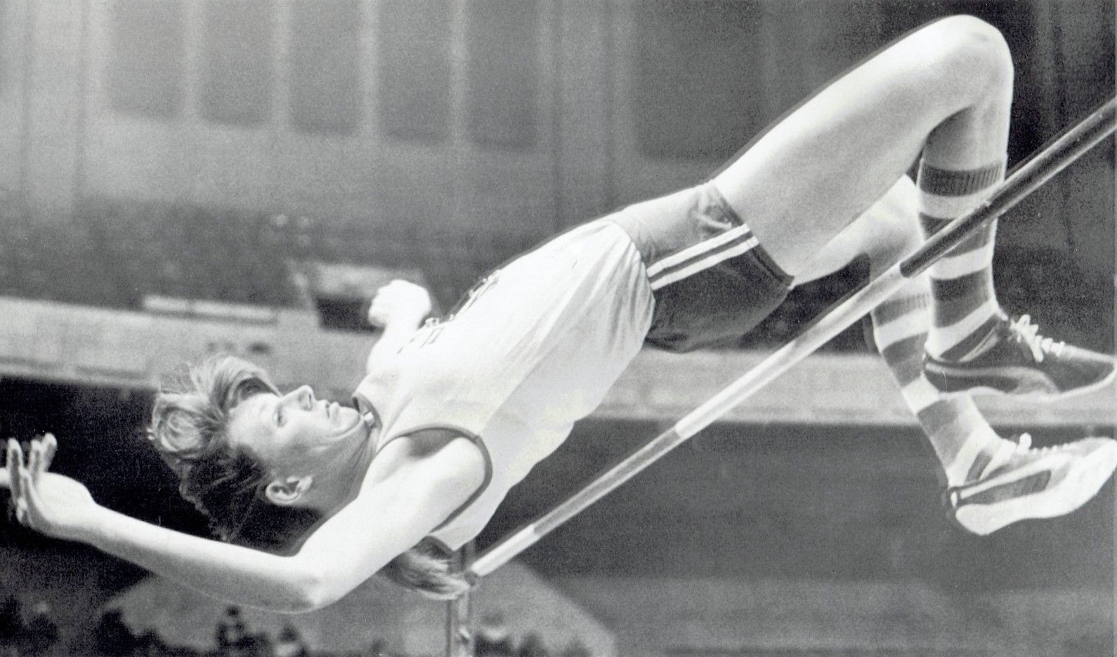 1975 Wire Photo Joni Huntley break indoor high jump record at US-USSR track meet